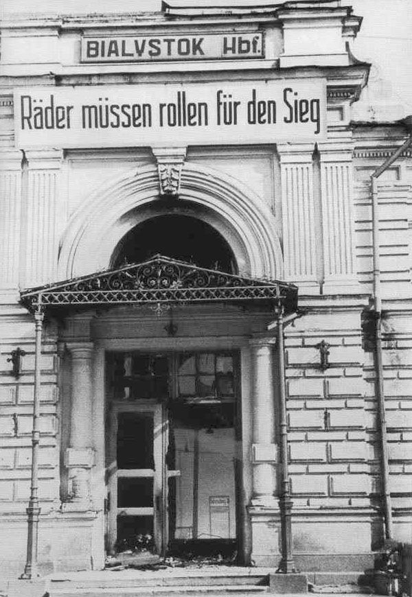 Soviet bombing damages in German occupied Białystok (Railway station building - Bialystok Hauptbahnhof).